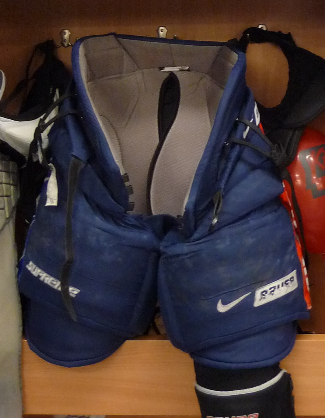 Cropped image of hockey goalie pants